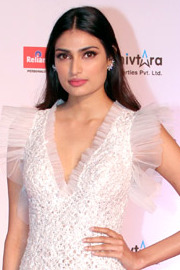 Athiya Shetty attends the 63rd Jio Filmfare Awards 2018, Jan 21.